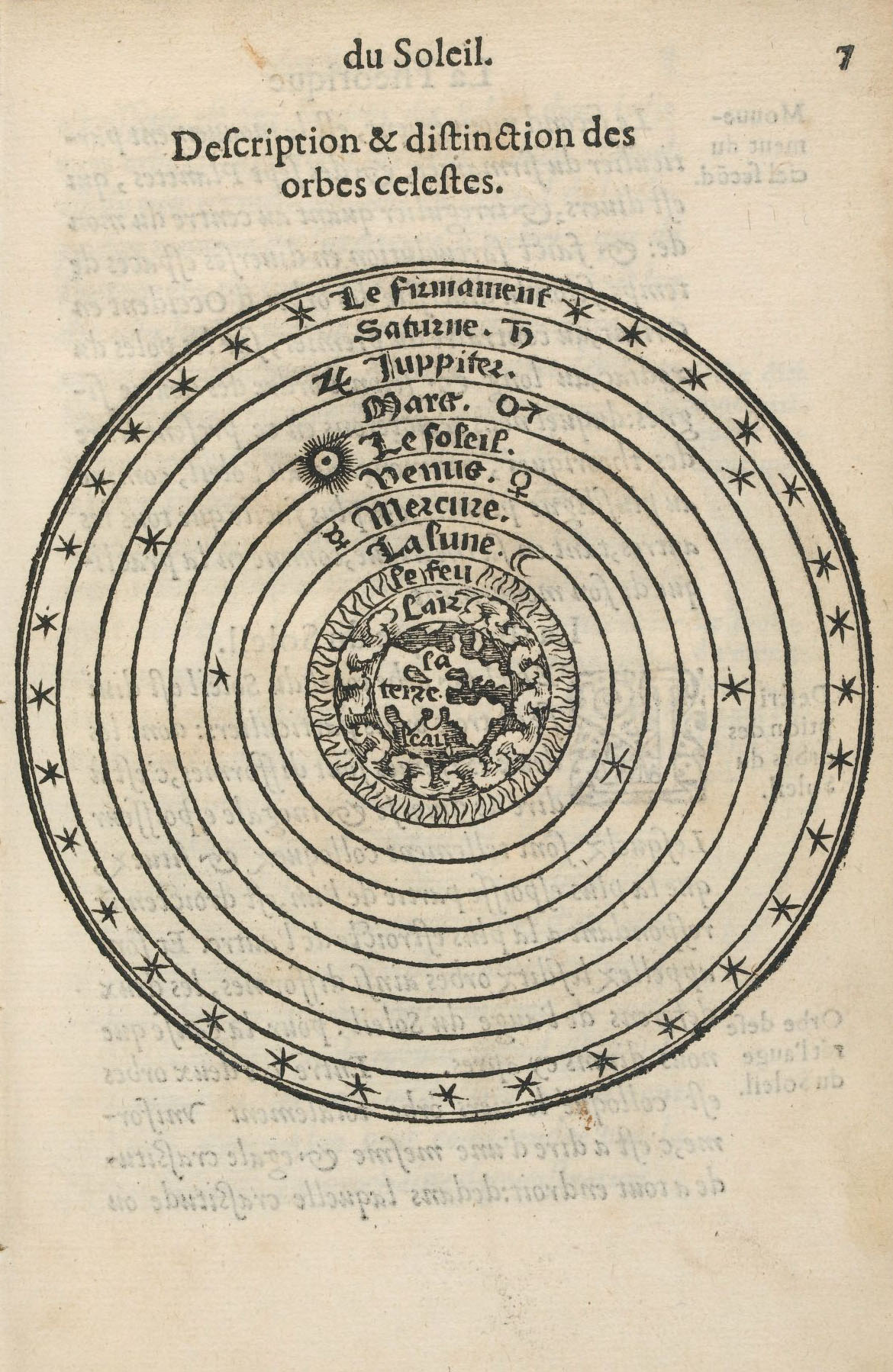 Illustration from La theorique des cieulx et sept planetes, avec leurs mouvements, orbes & disposition, 1558, by Oronce Fine (1494-1555). *FC5.F494.528tb, Houghton Library, Harvard University